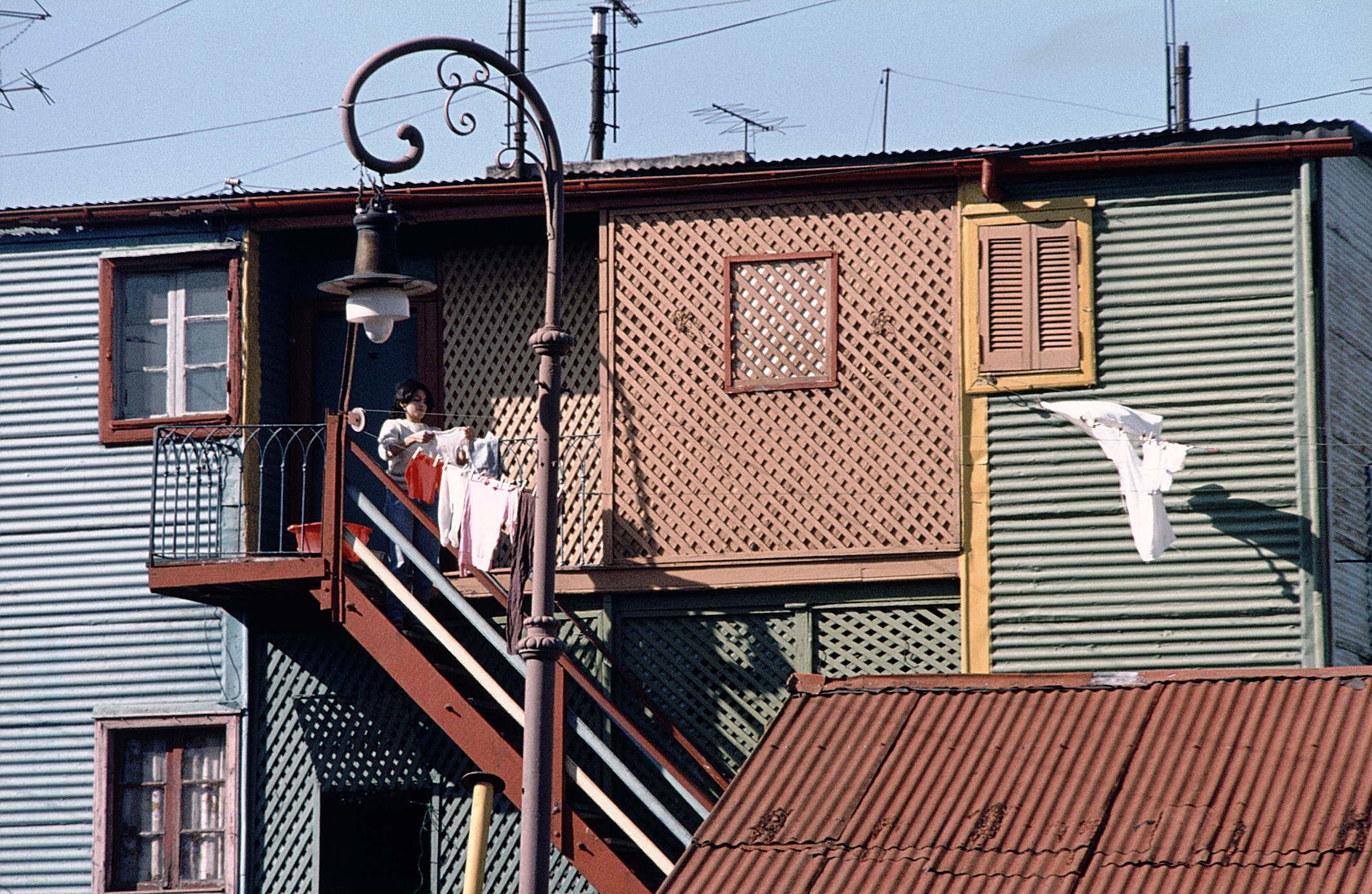 Tenement along the Caminto, in La Boca, Buenos Aires